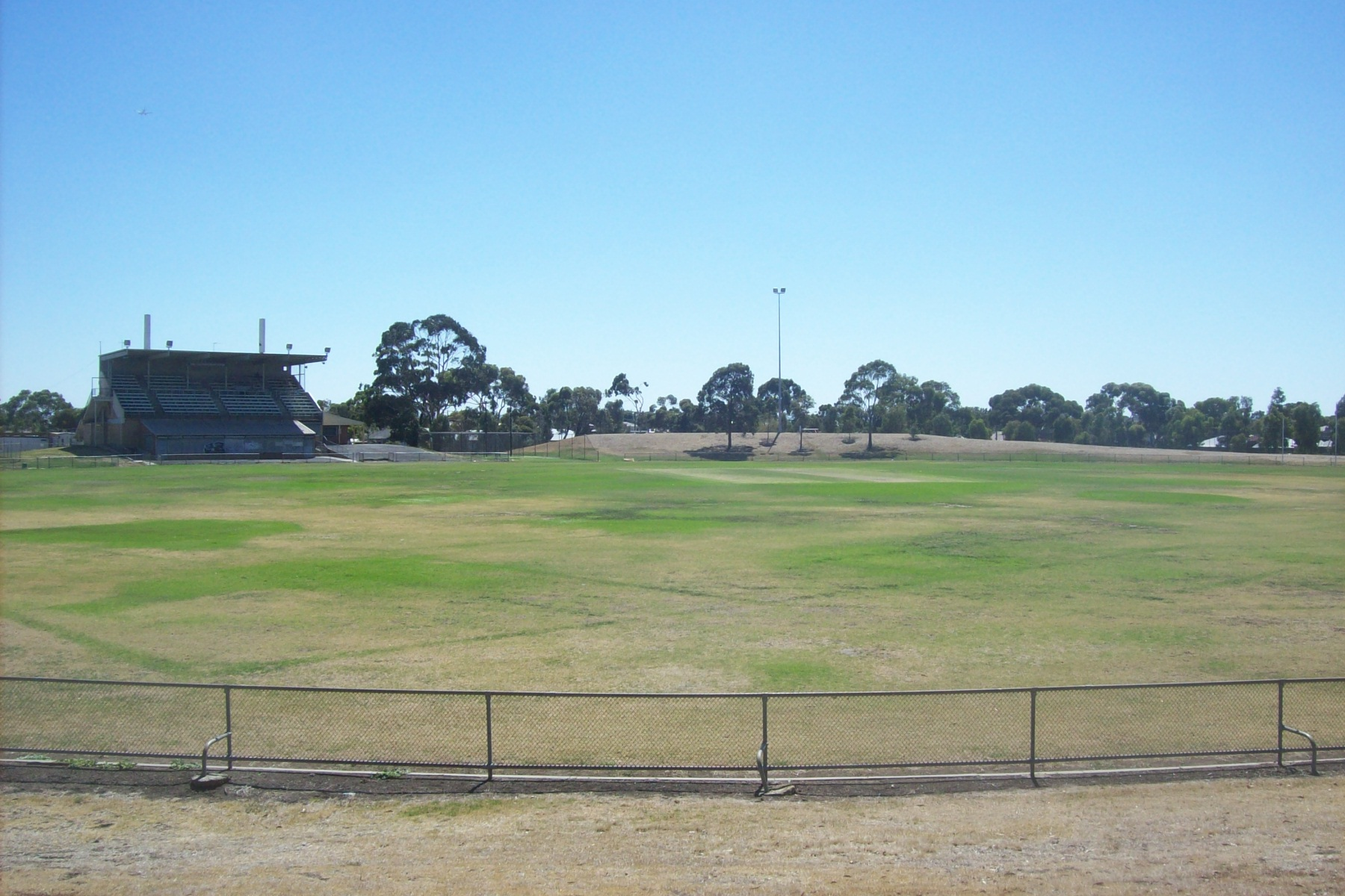 Skinner Reserve, as it exists in 2014, viewed from the southern wing.